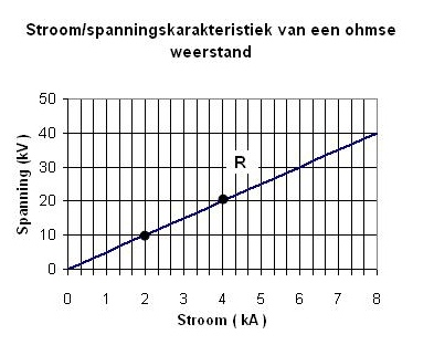 Chart of current/voltage across an electrical resistance, in Dutch.